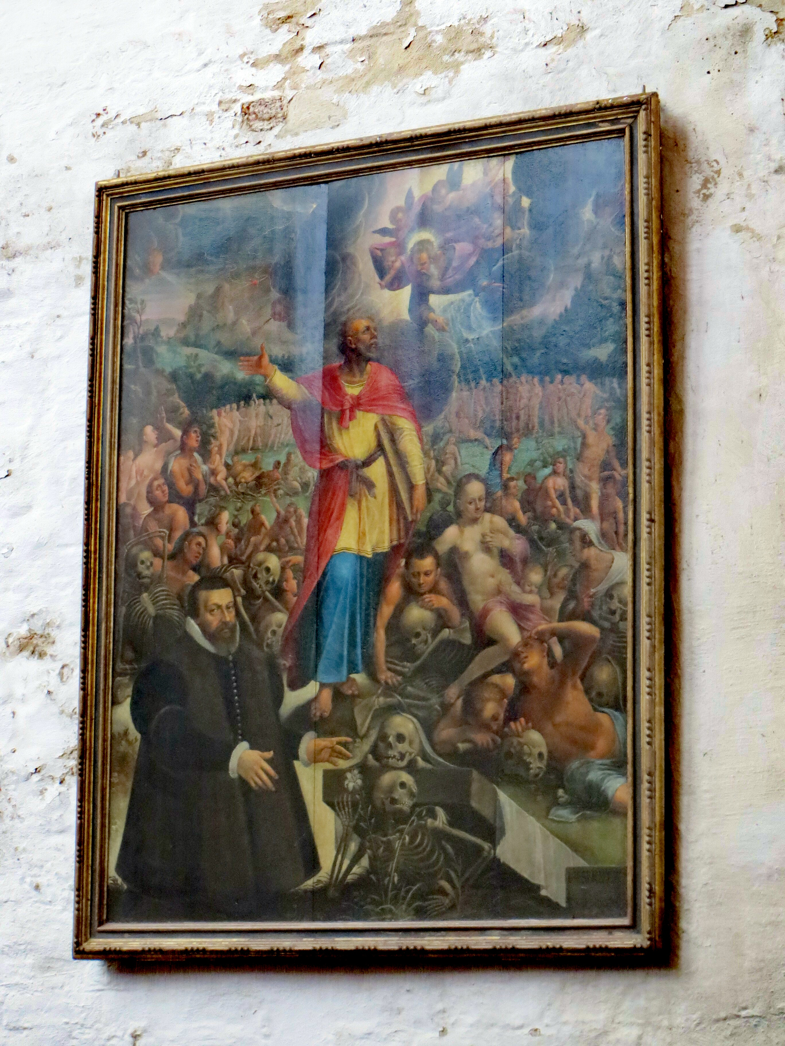 Johann Willigens: Epitaph for Heinrich Wedemhof (Politiker, 1524), showing Ezekiel's Vision of the Valley of Dry Bones. The rest of the Epitaph was destroyed in 1942